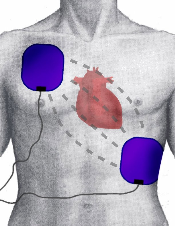 Position of Electrodes during Defibrillation/Kardioversion, Position of Heart, Flow of intrathrocical Energy during Shock.